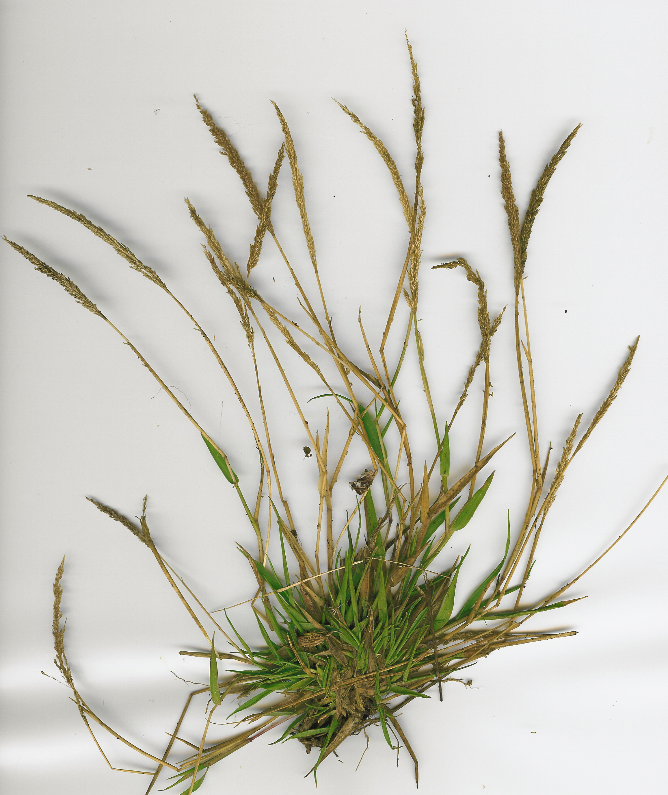 Sporobolus pyramidatus (plant). Location: Molokai, Waialua